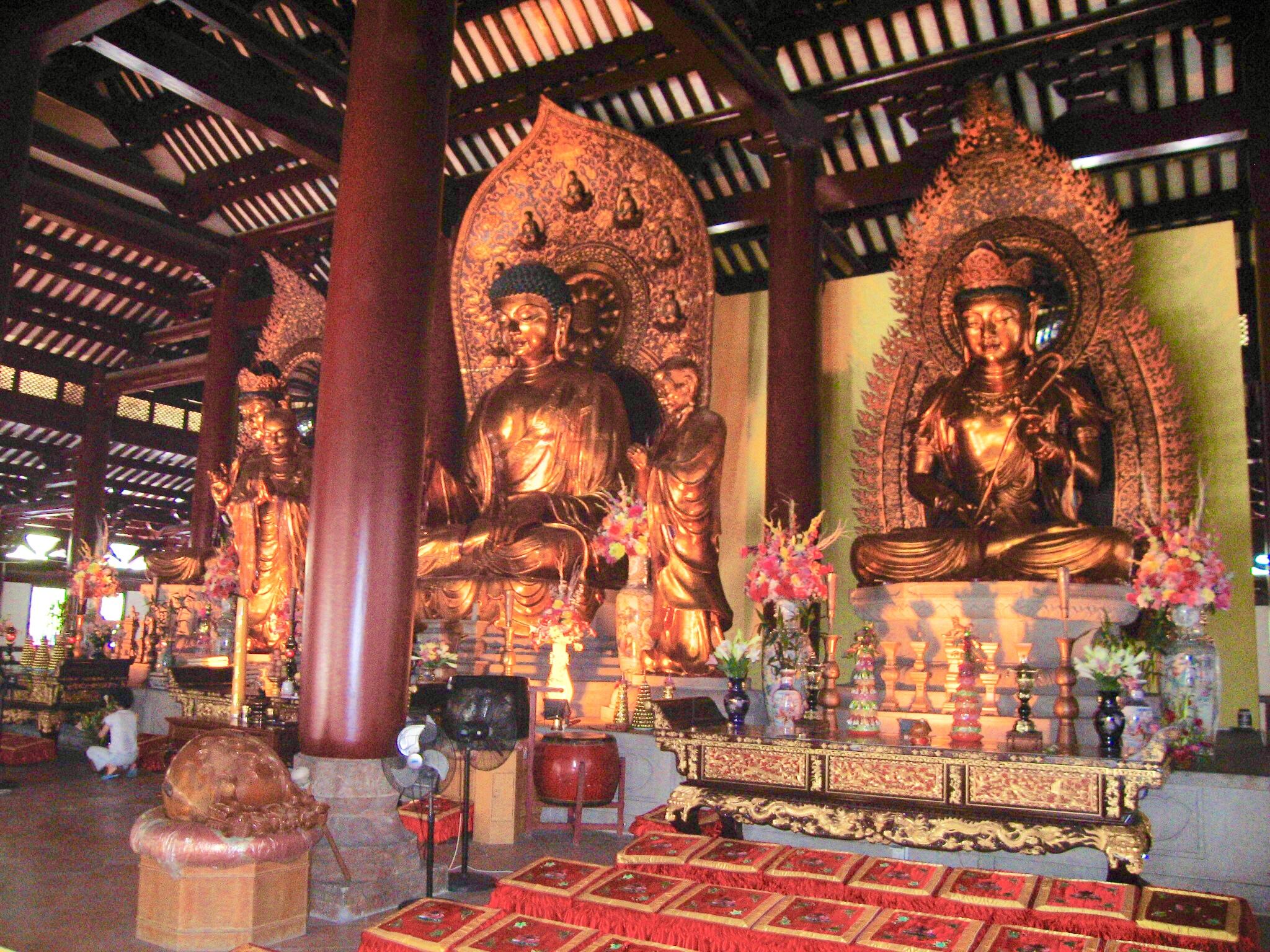 Buddhist statues in Guangxiao Temple (Bright Filial Piety Temple) in Guangzhou, China.